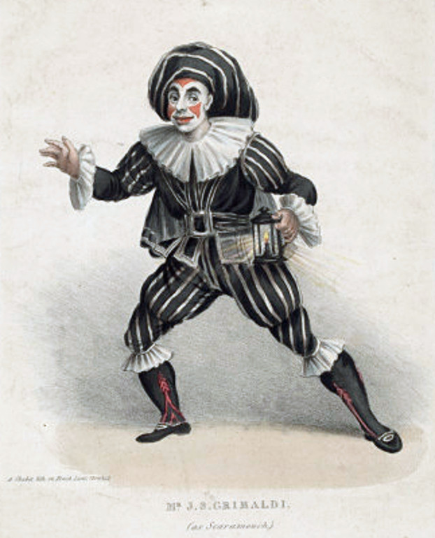 A hand-coloured lithograph print of the actor J.S. Grimaldi as Scaramouch by Charles Chabot